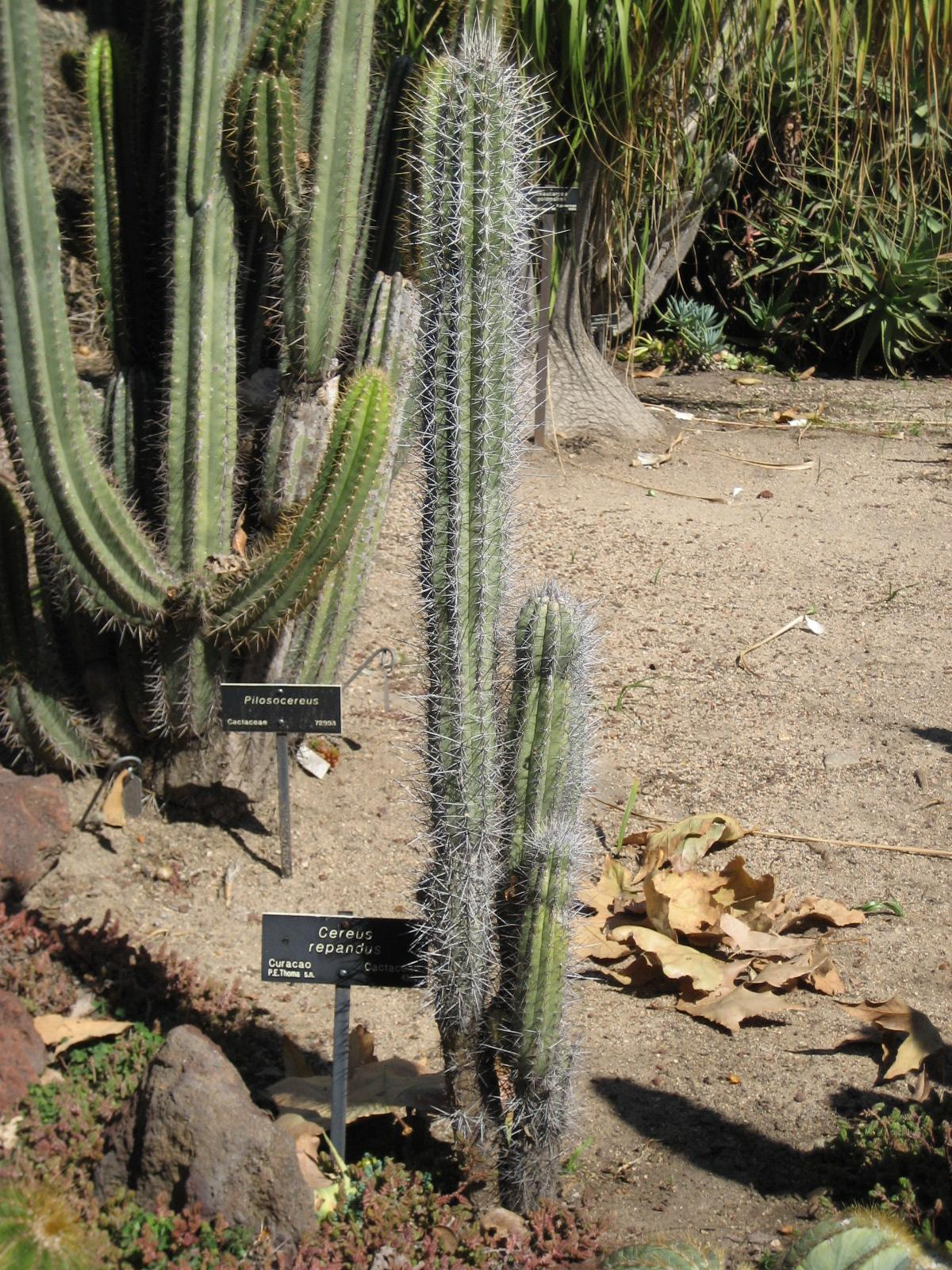 Photographed at Huntington Gardens (Los Angeles) in March